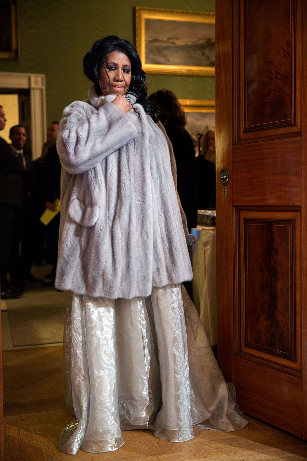 April 14, 2015 "The Queen of Soul - Aretha Franklin - was waiting for her cue during 'The Gospel Tradition: In Performance at the White House' when I noticed her close her eyes in silence for a few seconds while standing in the doorway between the Green Room and East Room before she was ready to begin her performance." (Official White House Photo by Pete Souza)